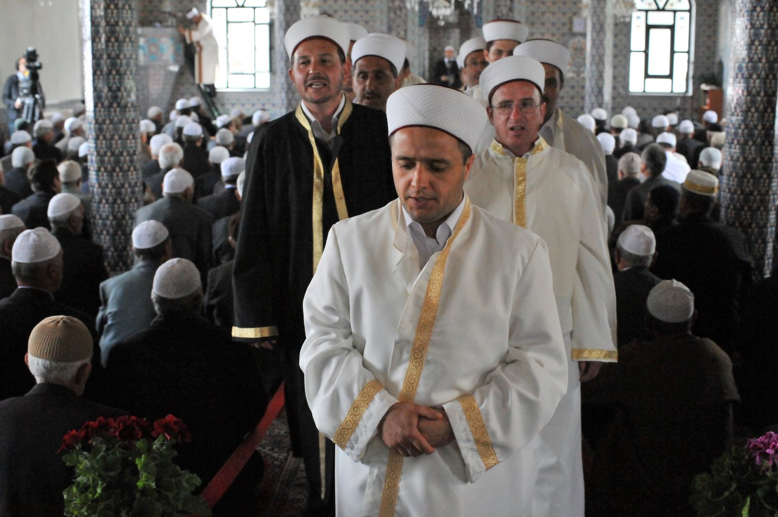 Muslim celebration, Mufti Ibrahim Serif, Filira, Rhodope, Thrace, Greece.